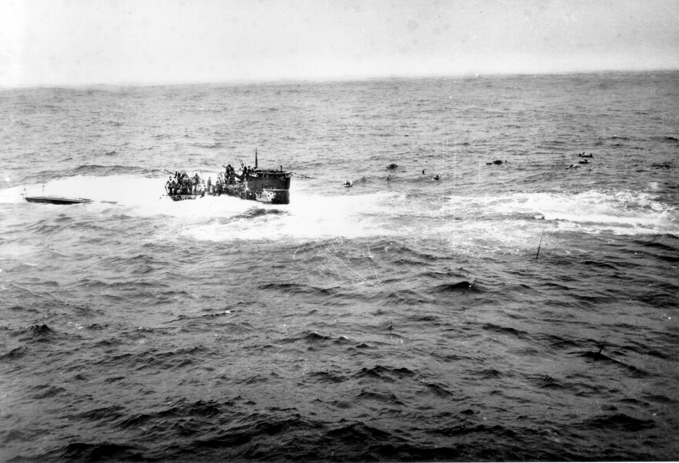 Photographed from USS Joyce (DE-317), which rescued 13 of her survivors. Joyce had a Coast Guard crew."; NP 26-G-2556; photographer unknown.